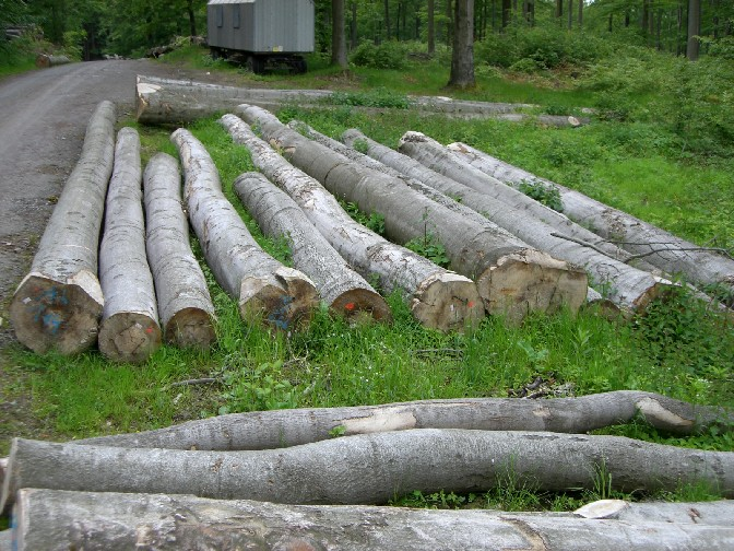 Roundwood Beech Harz-Mountains